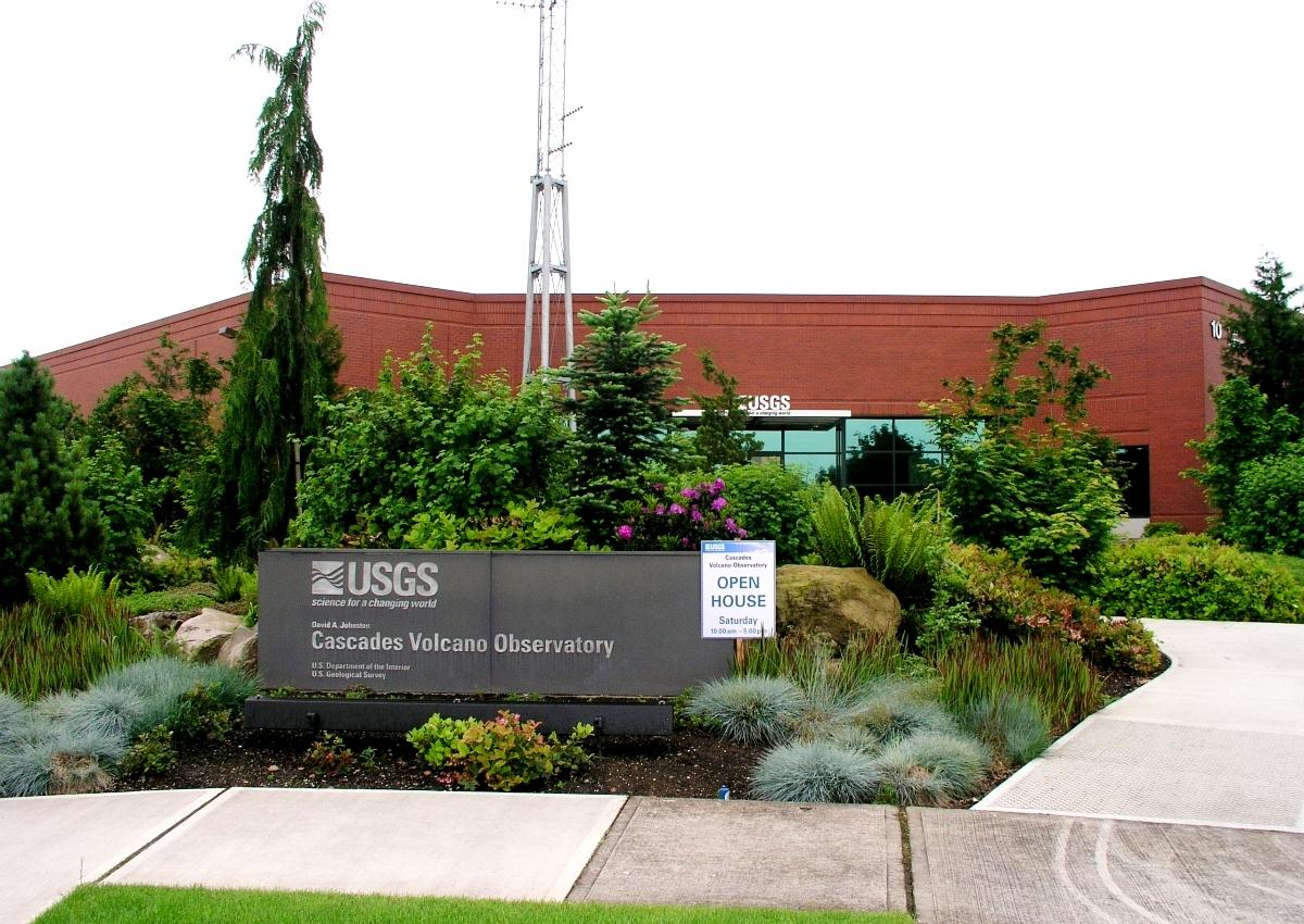 Slightly cropped version of original image that showed the front of the Cascades Volcano Observatory building in Vancouver, Washington State, USA.